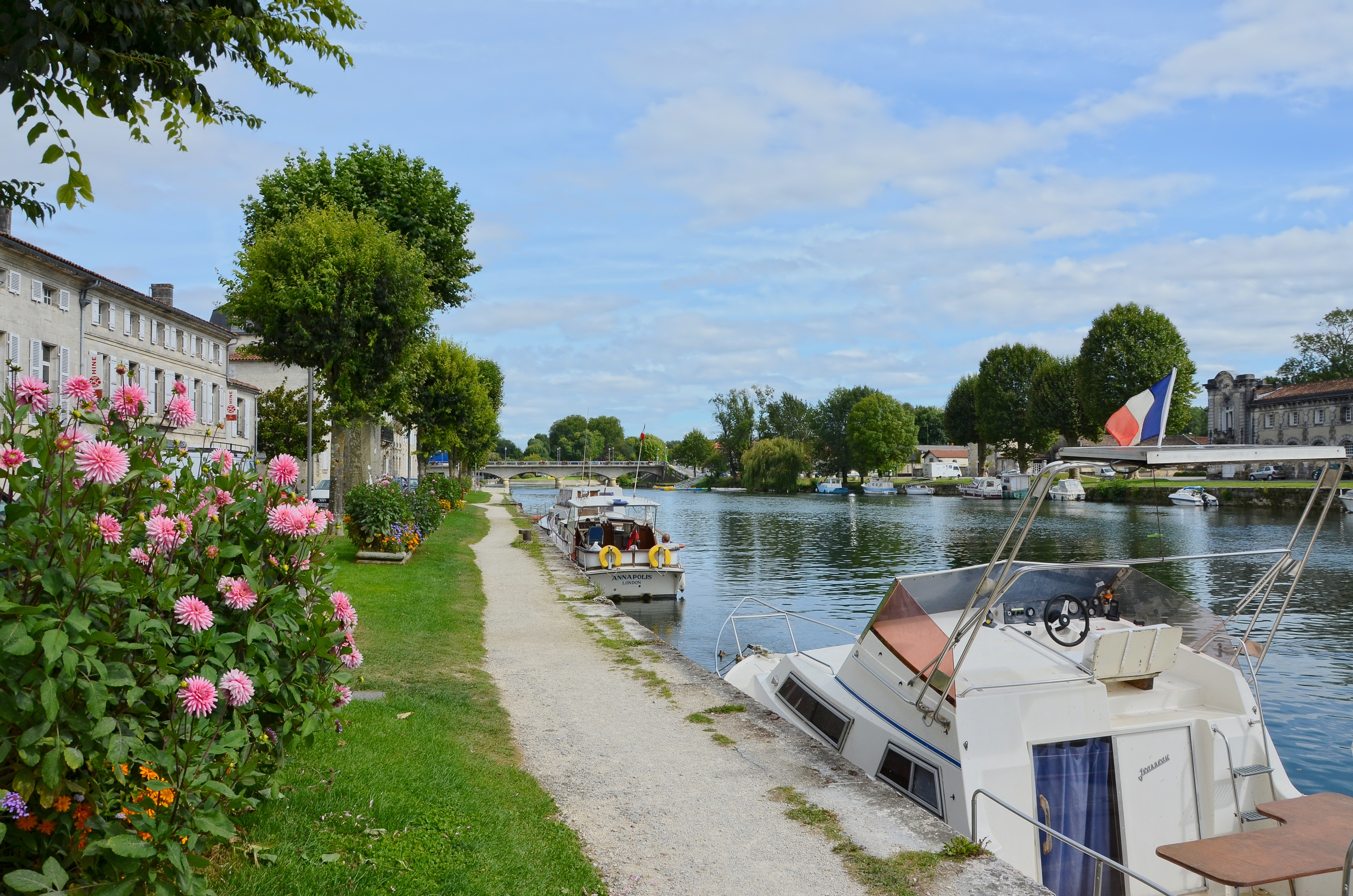 Wharf (Quai de l'Orangerie) and pleasure boats on the river Charente, Jarnac, Charente, France.